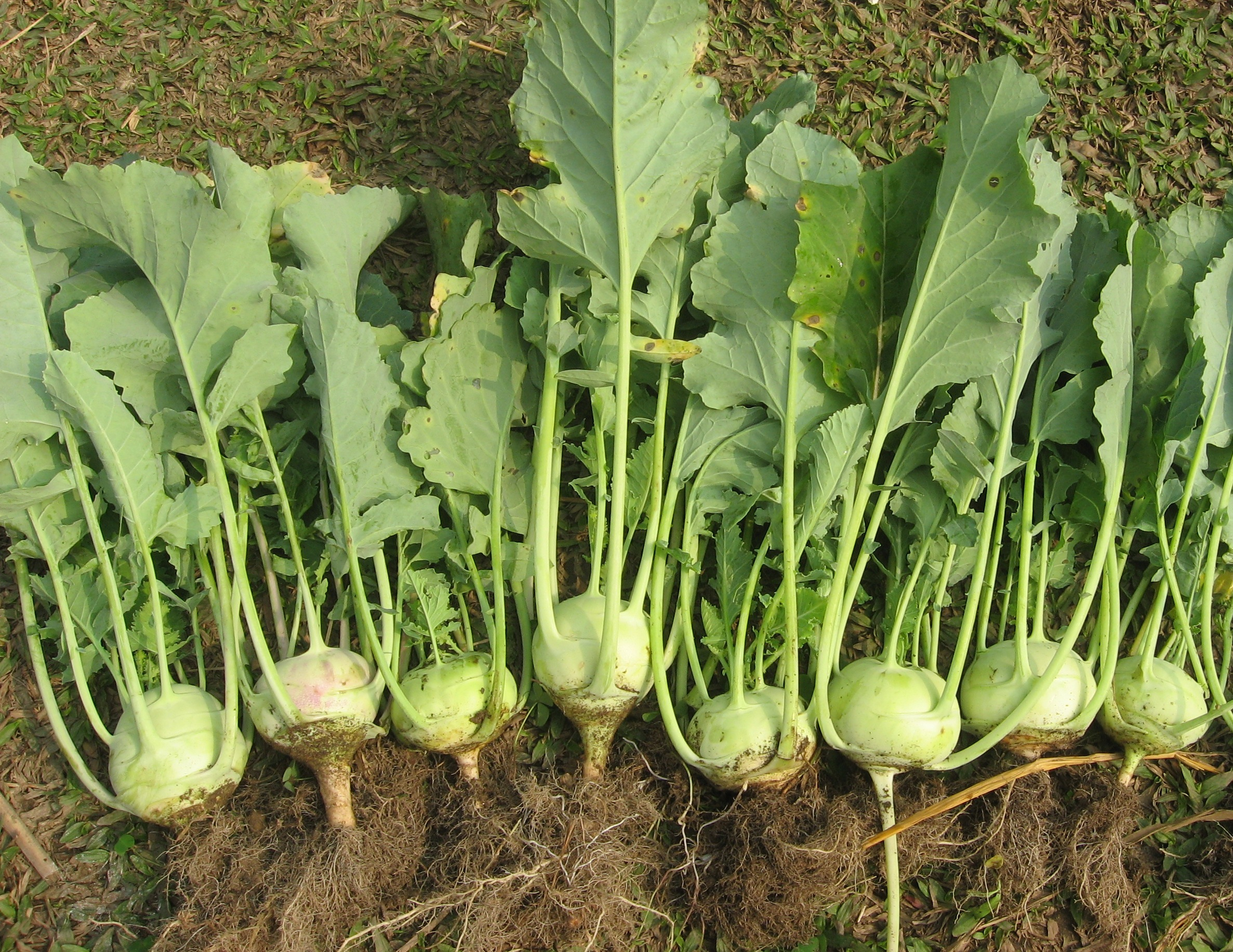 vegetable